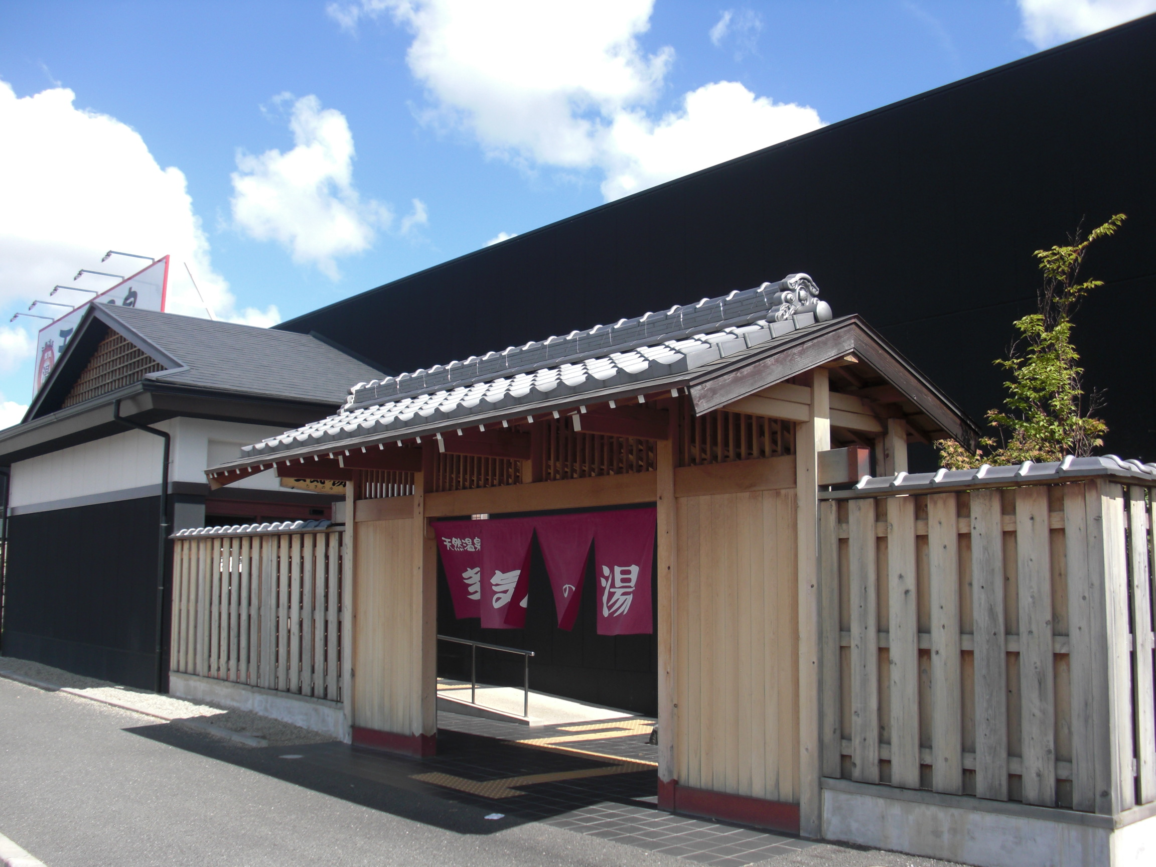 This is a spa in Taki, Mie, Japan. It is called "Ten'nen Onsen Taki no Yu".